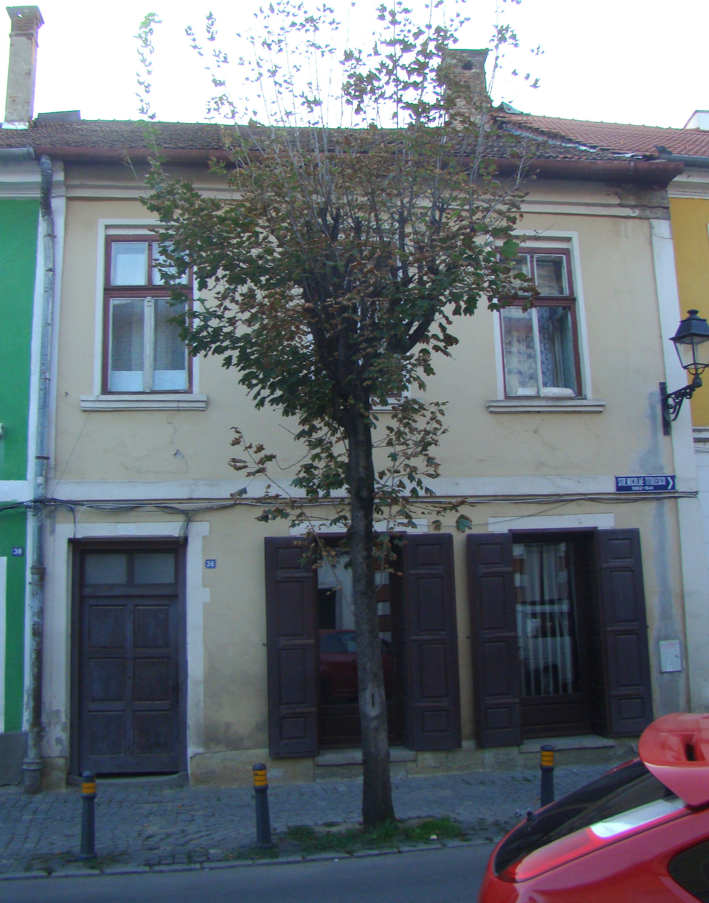 House, historic monument, in Bistrița, Nicolae Titulescu street 36